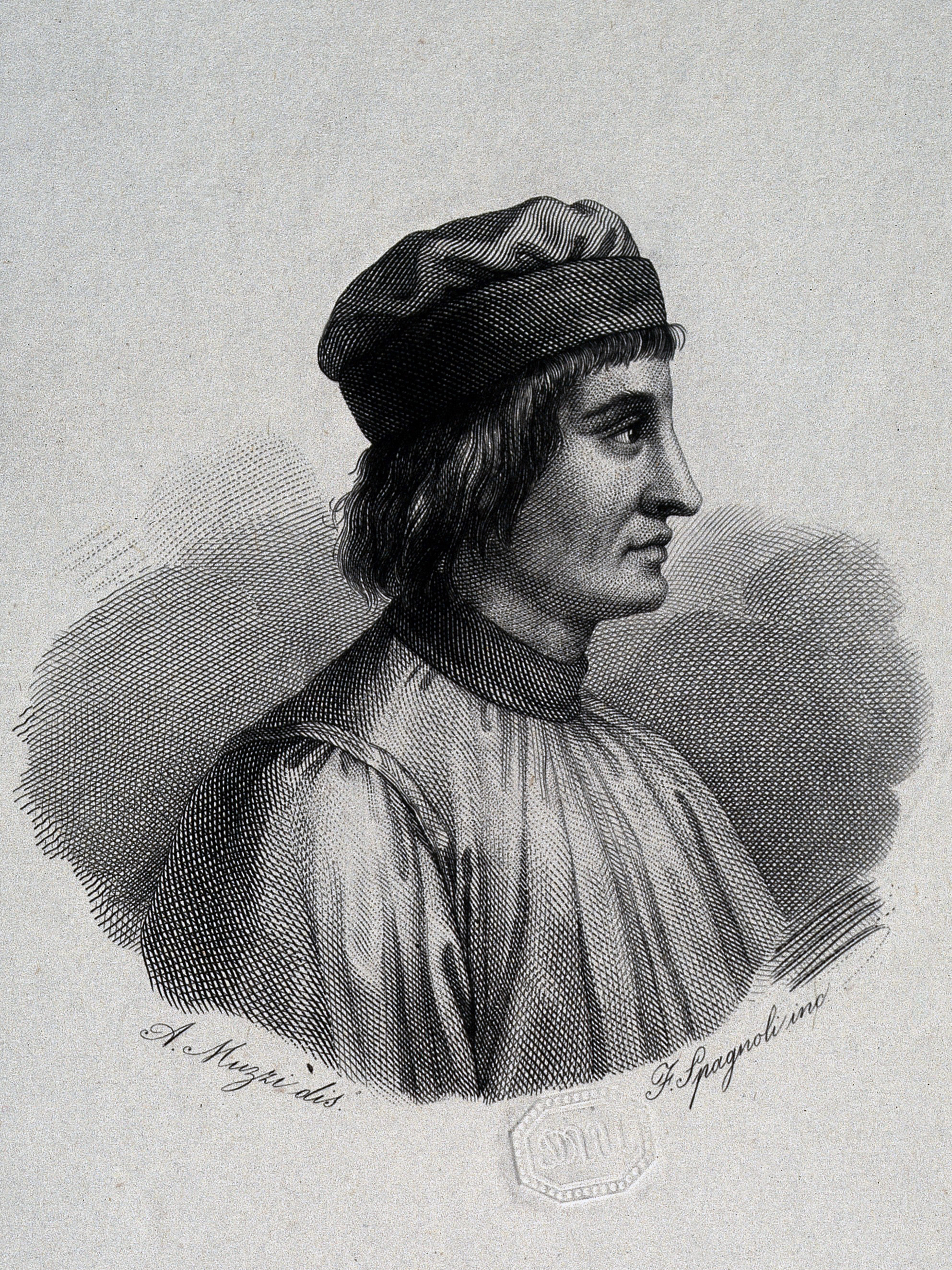 Cropped version of File:Pietro Crescenzio. Line engraving by F. Spagnoli after A. Mu Wellcome V0001352.jpg